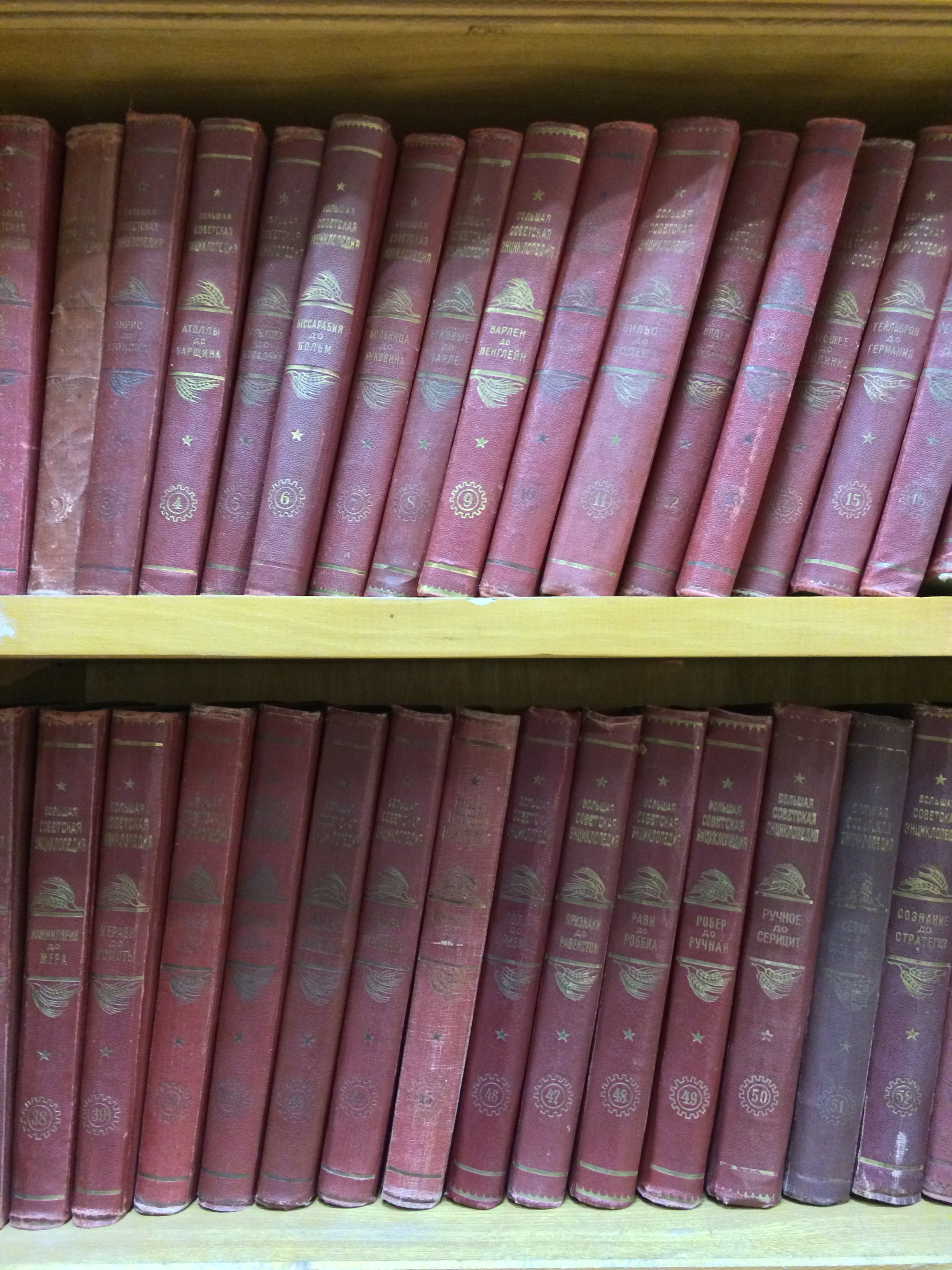 Great Soviet Encyclopedia (1st edition)